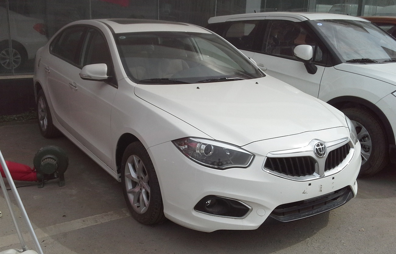 Brilliance H530 facelift photographed in Zhengzhou, Henan province, China.